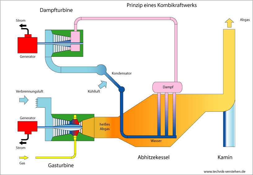 principle of a combined cycle power plant, german.